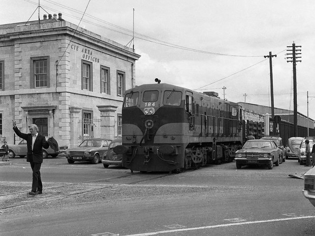 Cork City Railway - Albert Quay. A diesel locomotive hauls a freight transfer out of Albert Quay station on its way to Glanmire Road. Once headquarters for the Cork Bandon & South Coast Railway system, Albert Quay closed to all traffic on 1 April 1961, although... more